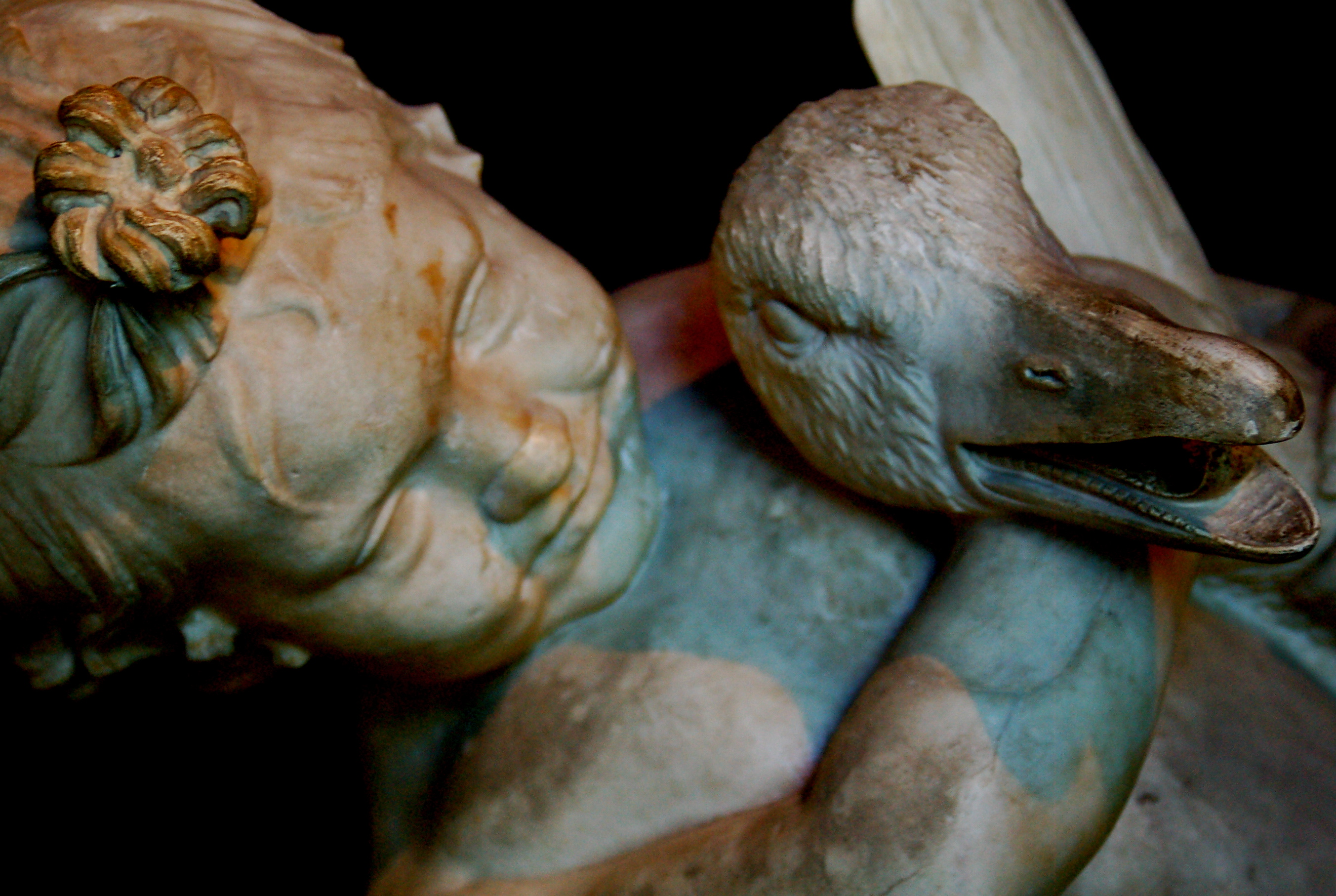 A great sculpture of a little boy wrestling a goose. According to my host in Munich, 'when Greece became a Real Country they wanted some link to the European royalty, but not from a Real Power that might come in and try to take over, so they picked a Bavarian king -- giving them royalty with no power.' Thus beginning a Bavarian obsession with Greek sculpture. The Munich Glyptothek was founded by King Ludwig I of Bavaria, father of King Otto of Greece. From Wikipedia... "King Otto of Greece, (Greek: Όθων, Βασιλεύς της Ελλάδος, Othon, Vasileus tis Ellados) also Prince of Bavaria (June 1, 1815 - July 26, 1867) was made the first modern king of Greece in 1832 under the Convention of London, whereby Greece became a new independent kingdom under the protection of the Great Powers (Great Britain, France and the Russian Empire)."